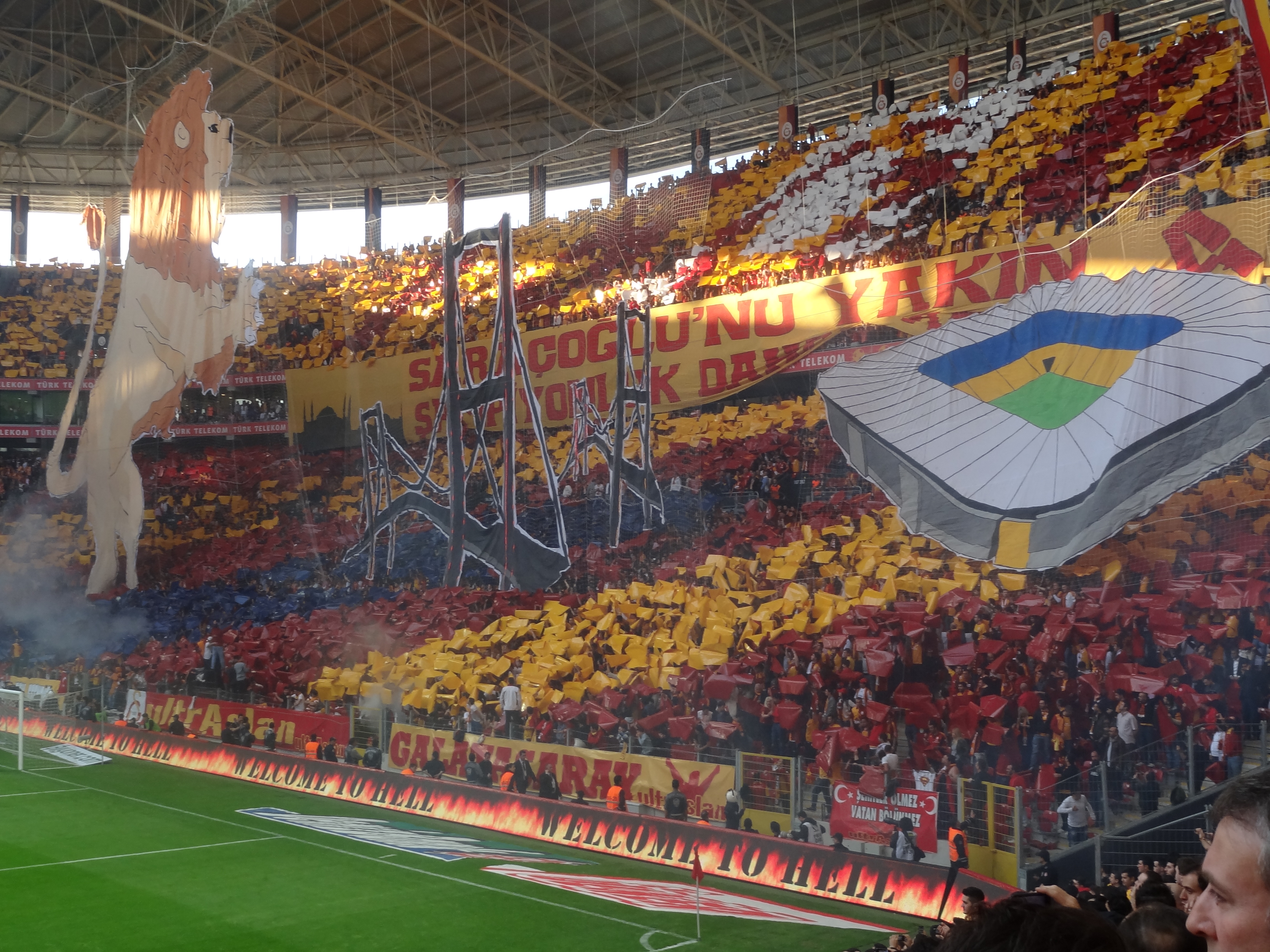 ultrAslan'ın Fenerbahçe maçından önce hazırladığı kareografi